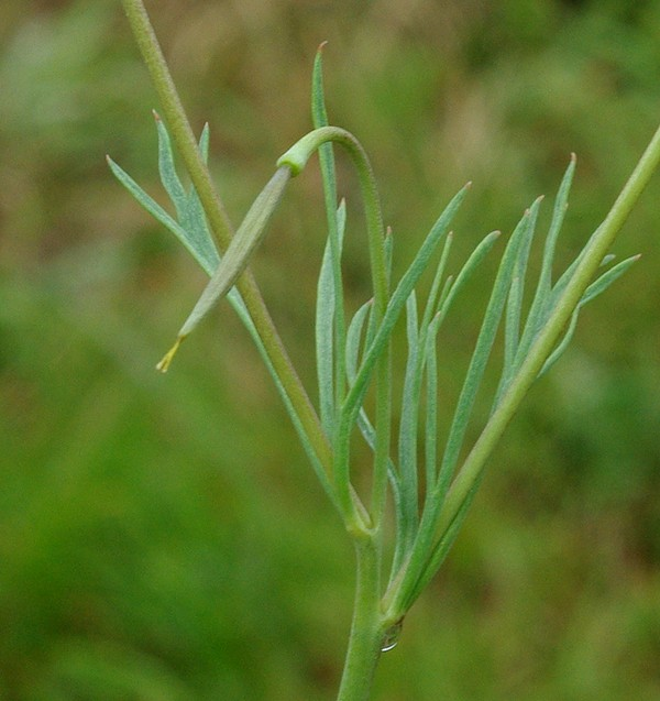 Fruit of Hypecoum pendulum in Baku, Azerbaijan